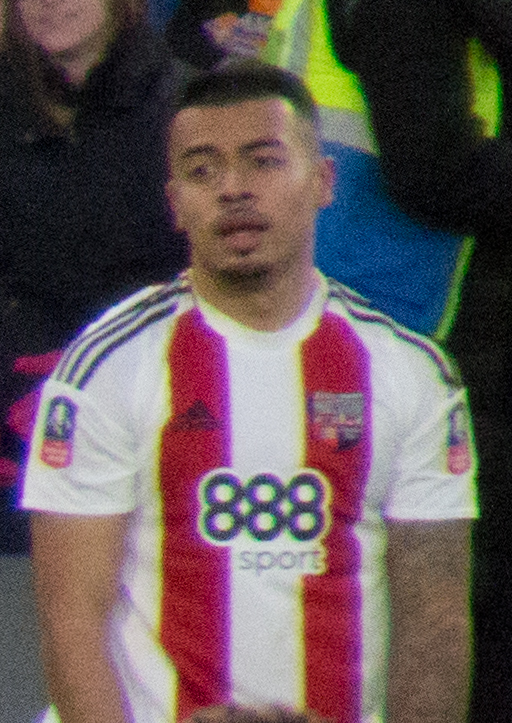 Brentford footballer Nico Yennaris playing for Brentford at Stamford Bridge, Chelsea, London in January 2017.